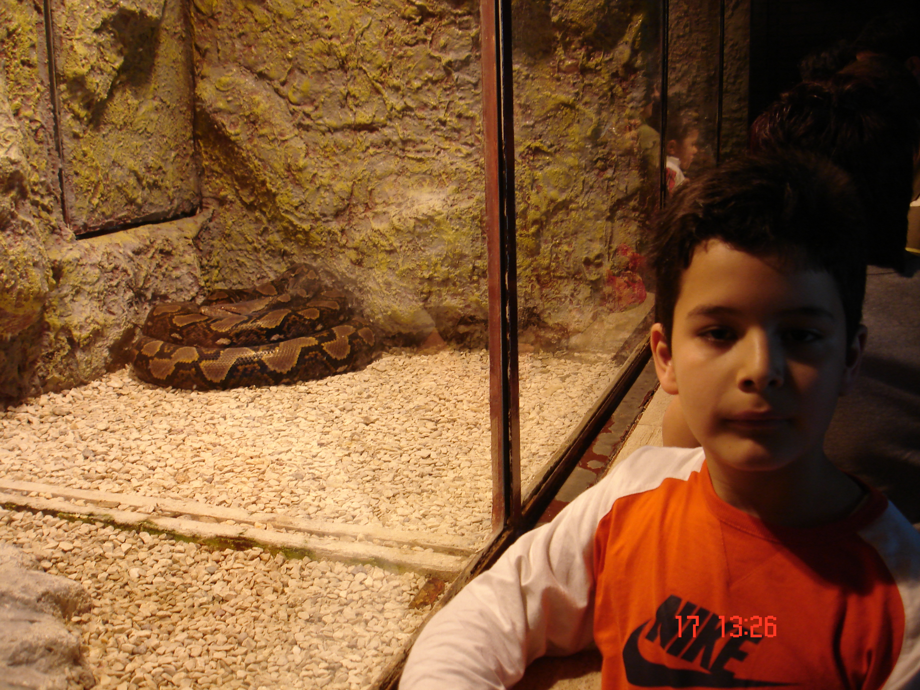 Python reticulatus